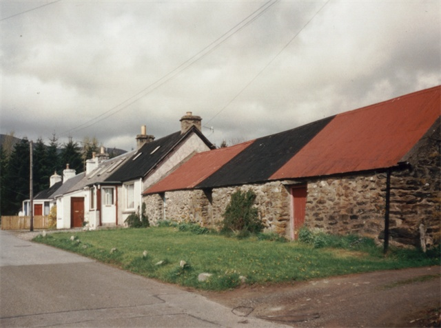 The original Fearnan, "today the village is 20 times as large"